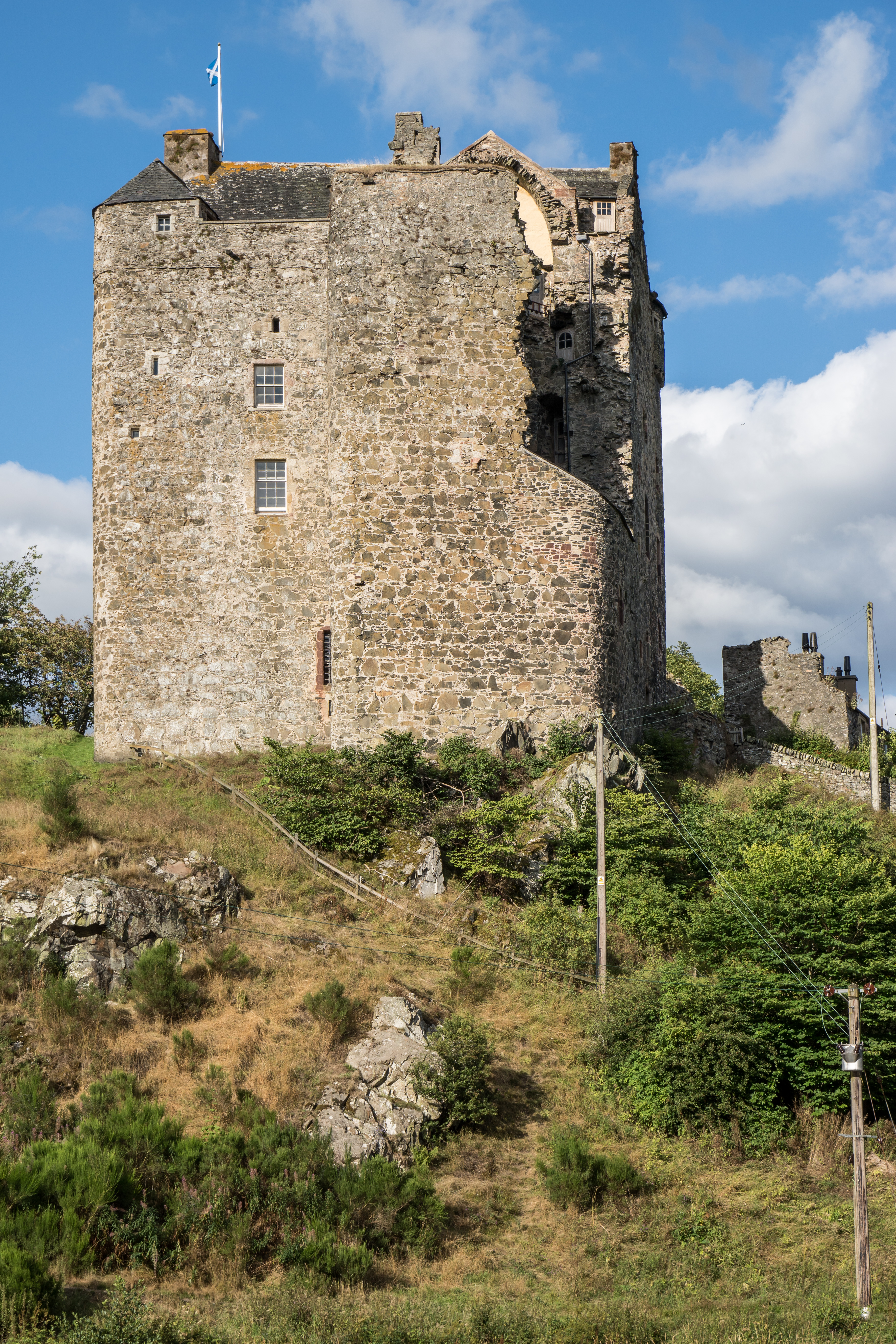 Neidpath Castle Wikidata has entry Q17571975 with data related to this building.